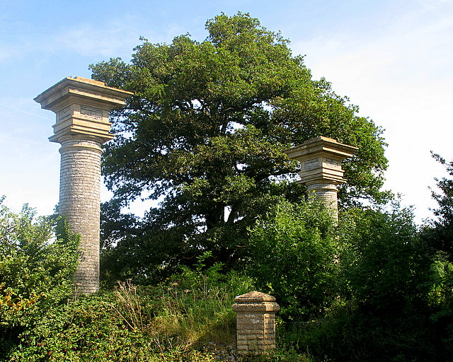 Tracy Park Estate - south entrance Tracy Park estate is mentioned in the Domesday Book. It covers 240 acres and derives its name from John de Tracye, who purchased the estate in 1246. In 1973 it was purchased at auction and developed into a hotel and golf course. These pillars mark the southernmost entrance which is no longer used by vehicles, although a footpath runs through here.